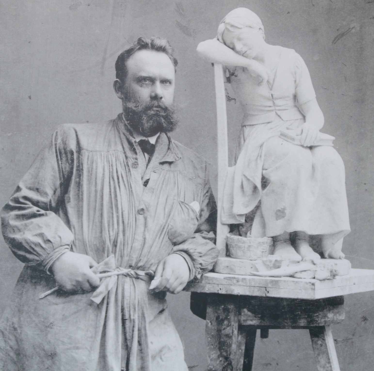 Image of the sculptor Mathias Skeibrok from Lista (Farsund, Vest-Agder), Norway. This sculptor worked in Paris and Oslo, and is regarded as one of Norway's most prominent sculptors. He was the teacher of Gustav Vigeland, who grew up in the neighbouring municipality of Lindesnes.